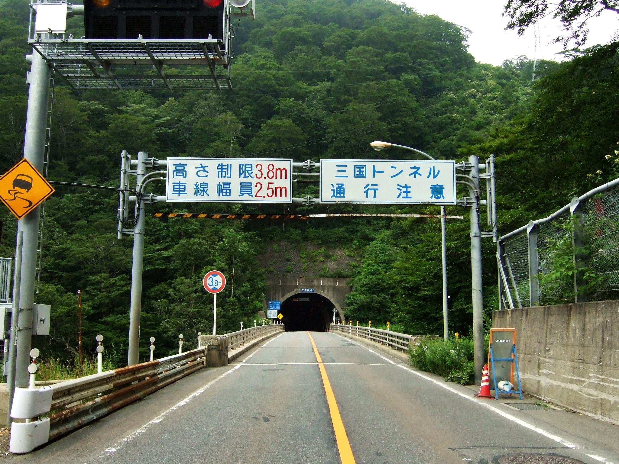 Entrance of Mikuni tunnel on route 17 from Gumma prefecture side.